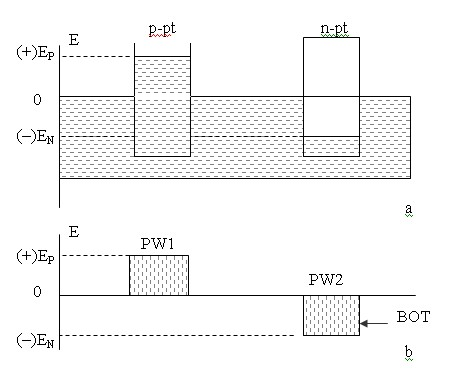 Molecular power 13. Graphic illustration of the Gibbs thermodynamic p- and n- potentials and potential wells. Depicts the Gibbs thermodynamic p- and n- potentials and potential wells.